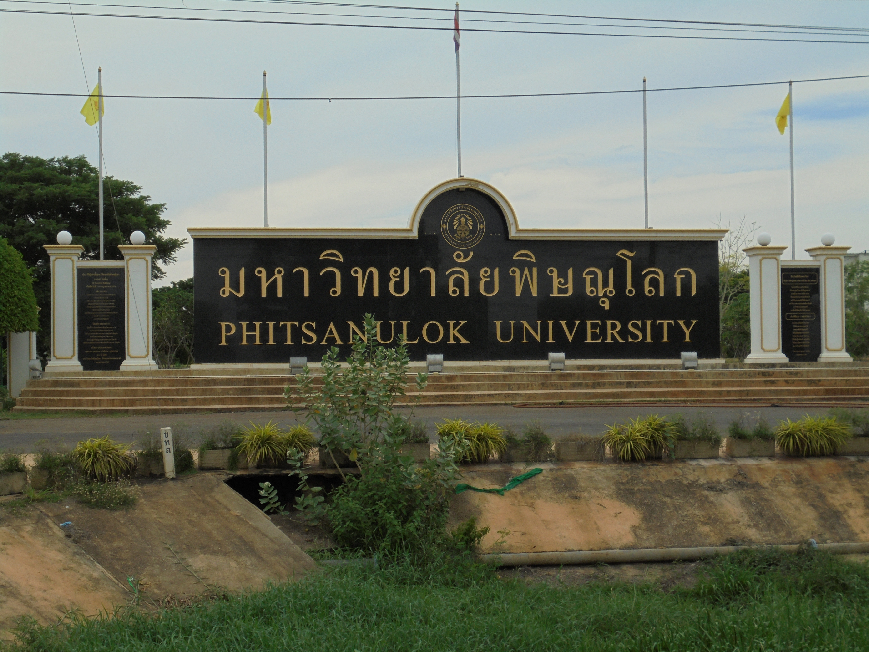 Phitsanulok University is a private university in subdistrict Samo Khae, district Mueang Phitsanulok.